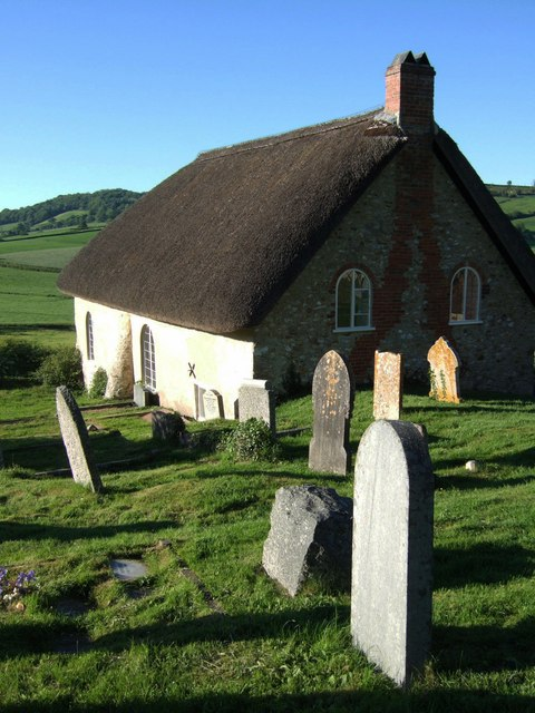 Loughwood Meeting House This Baptist chapel, in the care of the National Trust who restored the thatched roof, was built in about 1653.